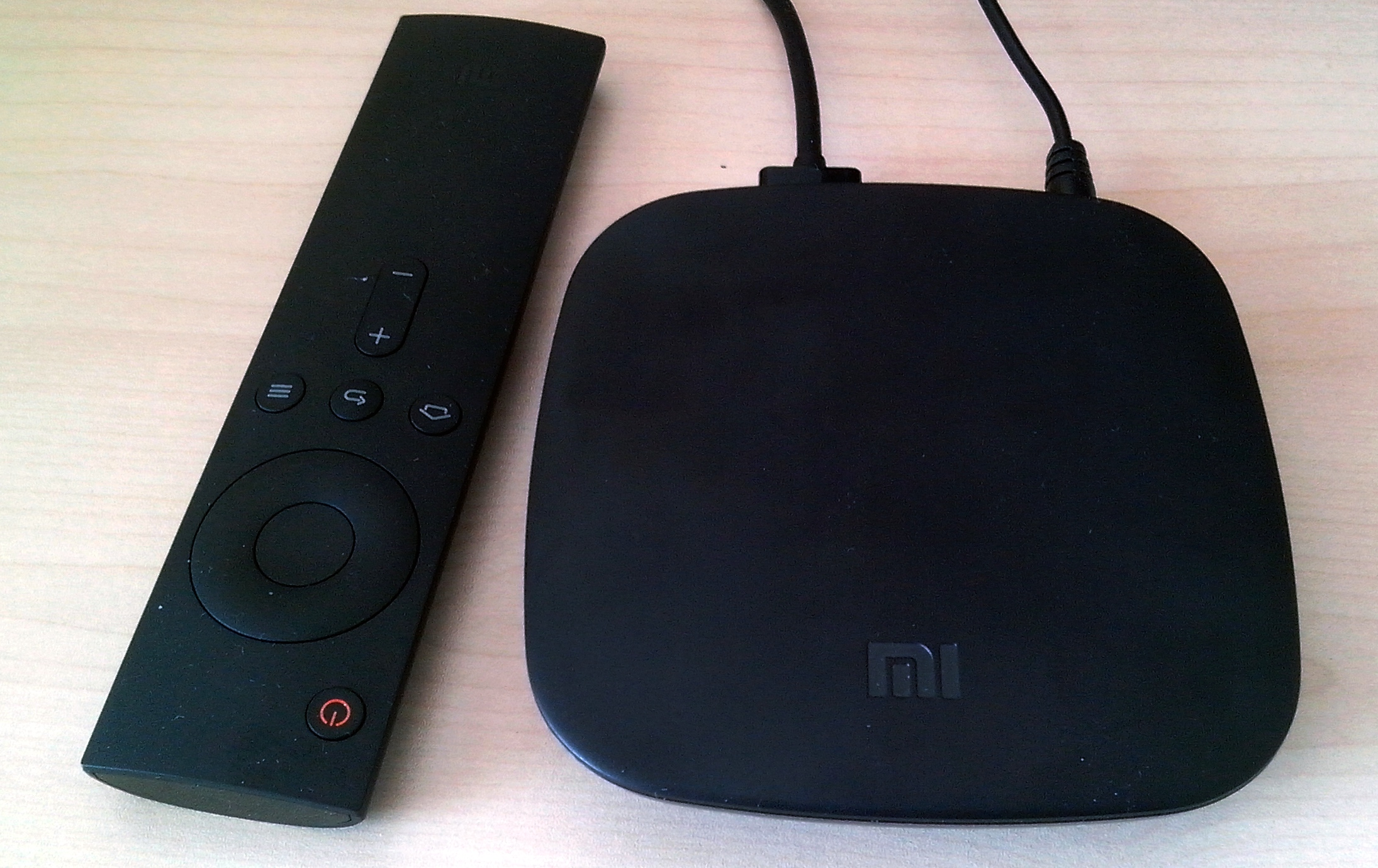 XIAOMI Box, HD Internet TV Box